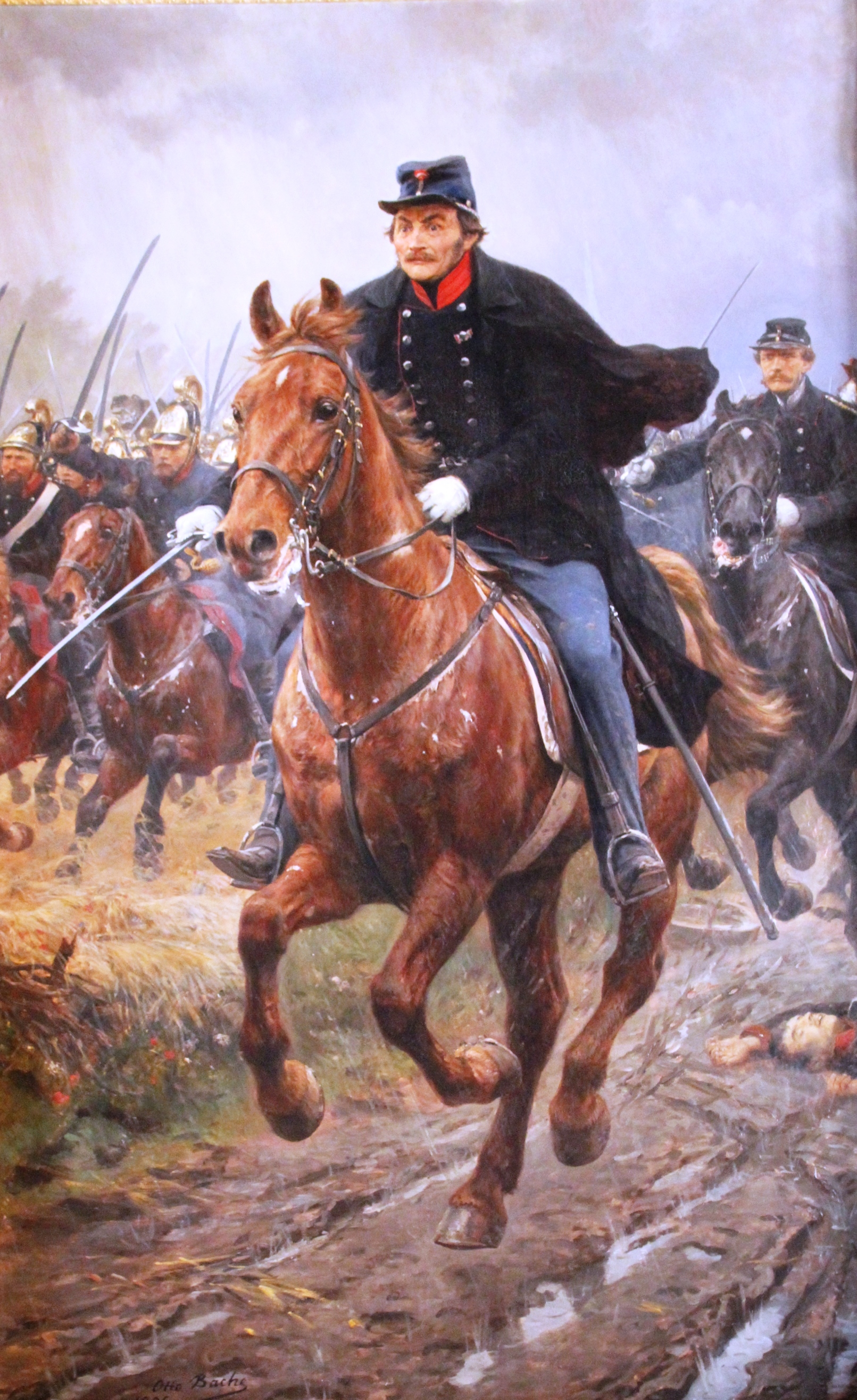 Painting by the artist Otto Bache, in Fredriksborg Castle museum exhitibtion, Sjælland - denmark.